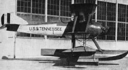 A U.S. Navy Vought UO-1 on floats in the 1920s. The plane was assigned to the battleship USS Tennessee (BB-43).